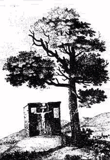 Königskreuz Göllheim vor dem Kapellenbau, um 1835